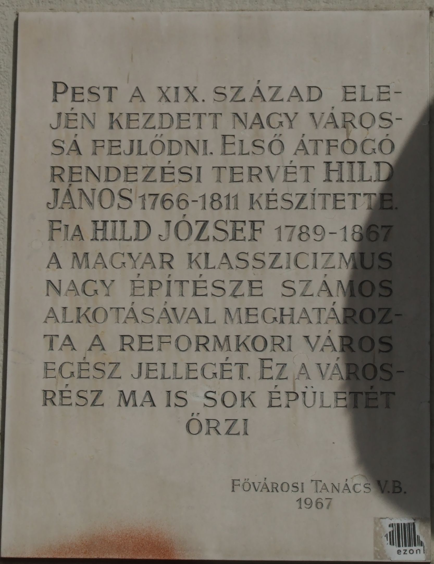 János Hild and József Hild commemorative plaque in Budapest District V, Október 6 Street No 1.